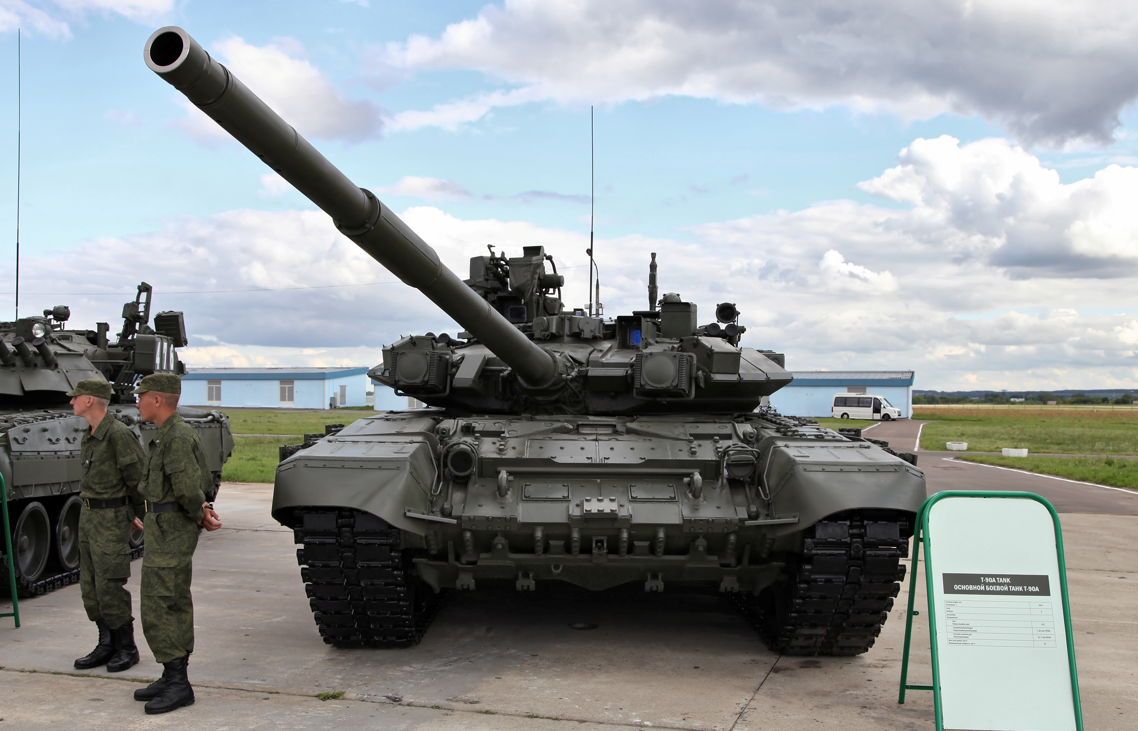 T-90A MBT at Engineering Technologies 2012 in Russia.